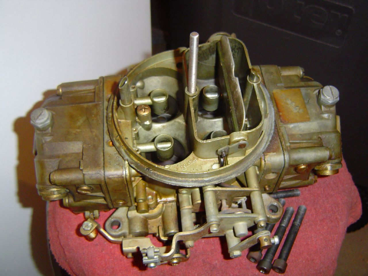 Holley 460 Double Pumper